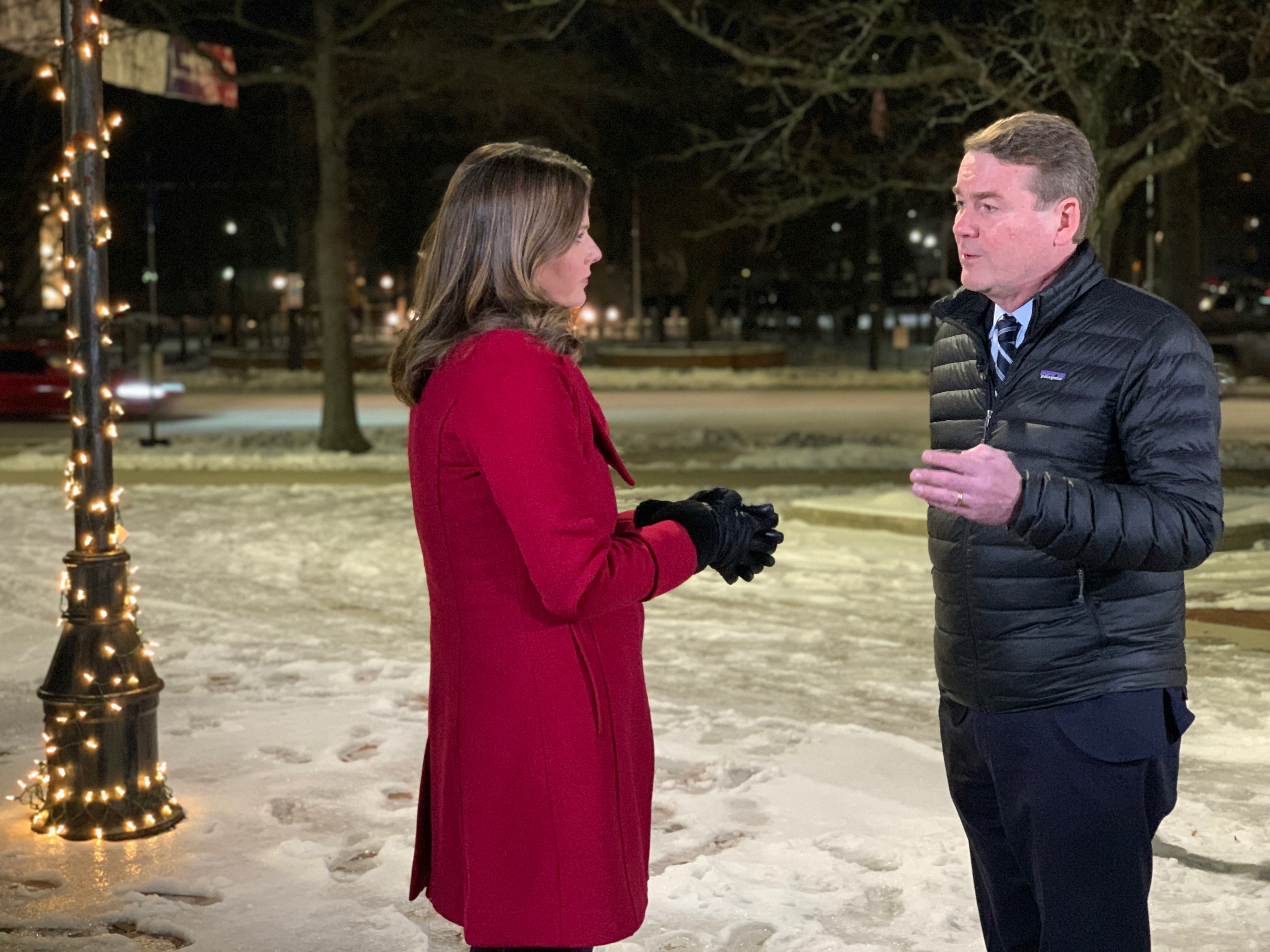 Tune in at 7 p.m. ET to @KasieDC for my conversation with @Kasie last night in Manchester about how we beat Donald Trump and make real progress for America's families. (And yes, Kasie was smart to wear gloves. I, however, was not.)